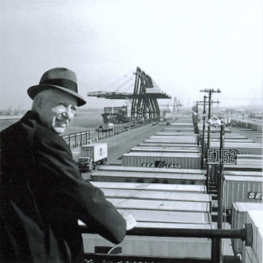 Malcolm McLean at railing, Port Elizabeth, mid-1960s